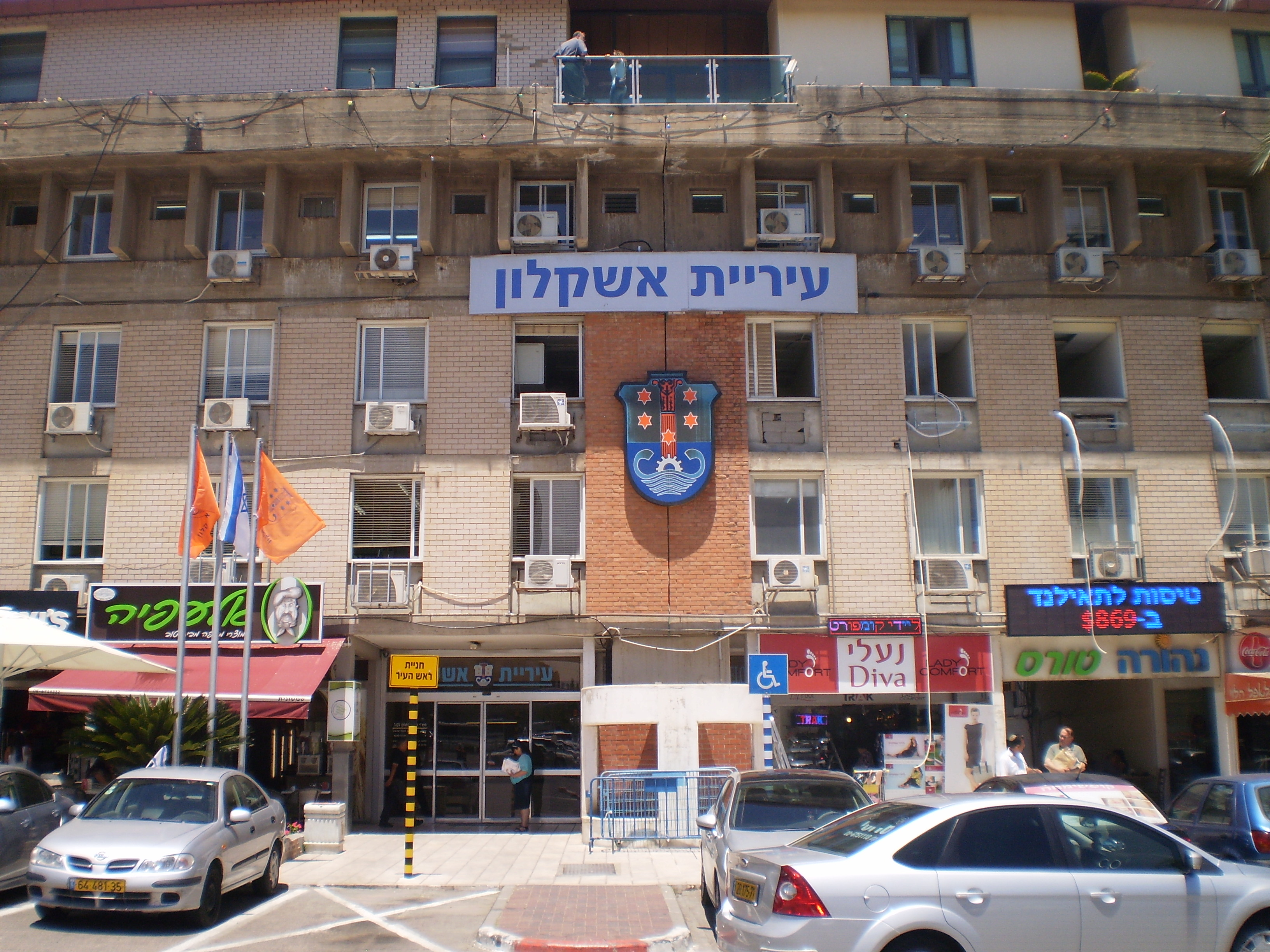 Ashkelon city hall